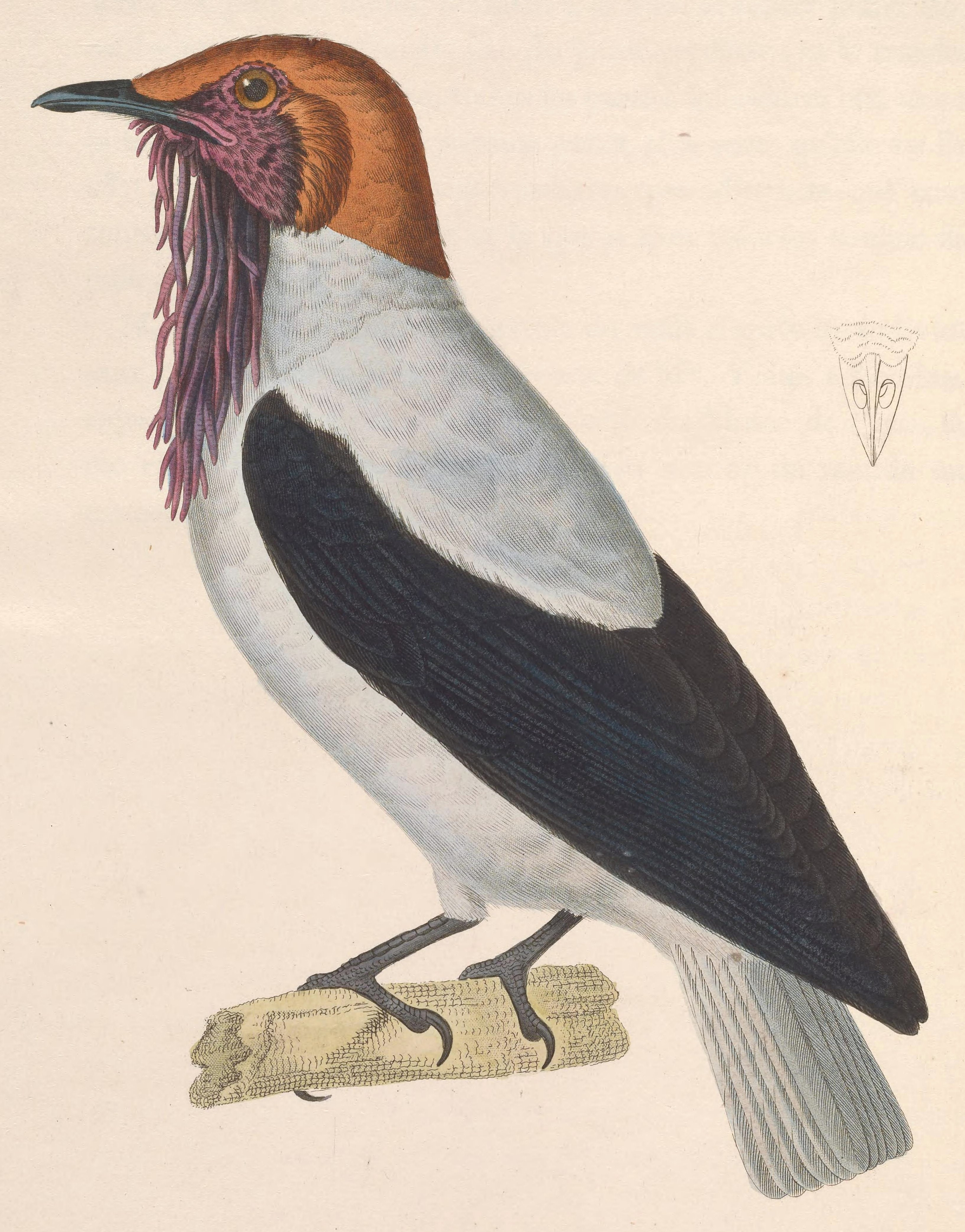 « Casmarhynchos variegata » = Procnias averano (Bearded Bellbird) - adult male